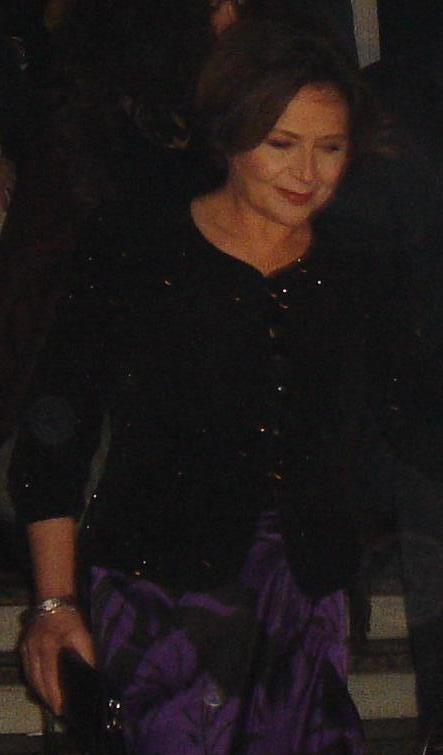 Emília Vášáryová, Prague, Czech Republic